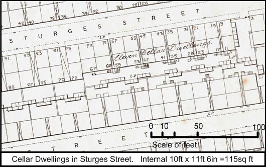 Extract from 1891 1:500 map showing cellar dwellings in Sturges Street. Handwritten comment from a surveyor.33 dwellings share 12 privies.